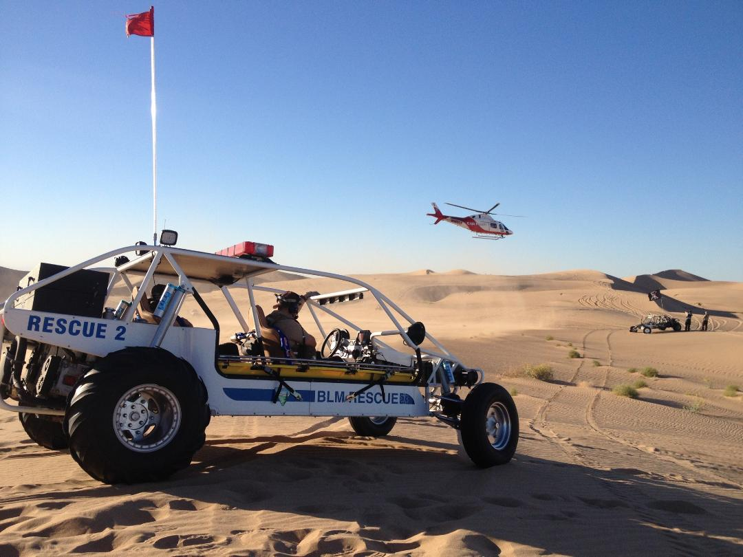 This year's employee photo contest is a testament to our hardworking employees. BLMer Michelle Puckett shared this powerful shot of an EMS Park Ranger Rescue at Imperial Sand Dunes Recreation Area.